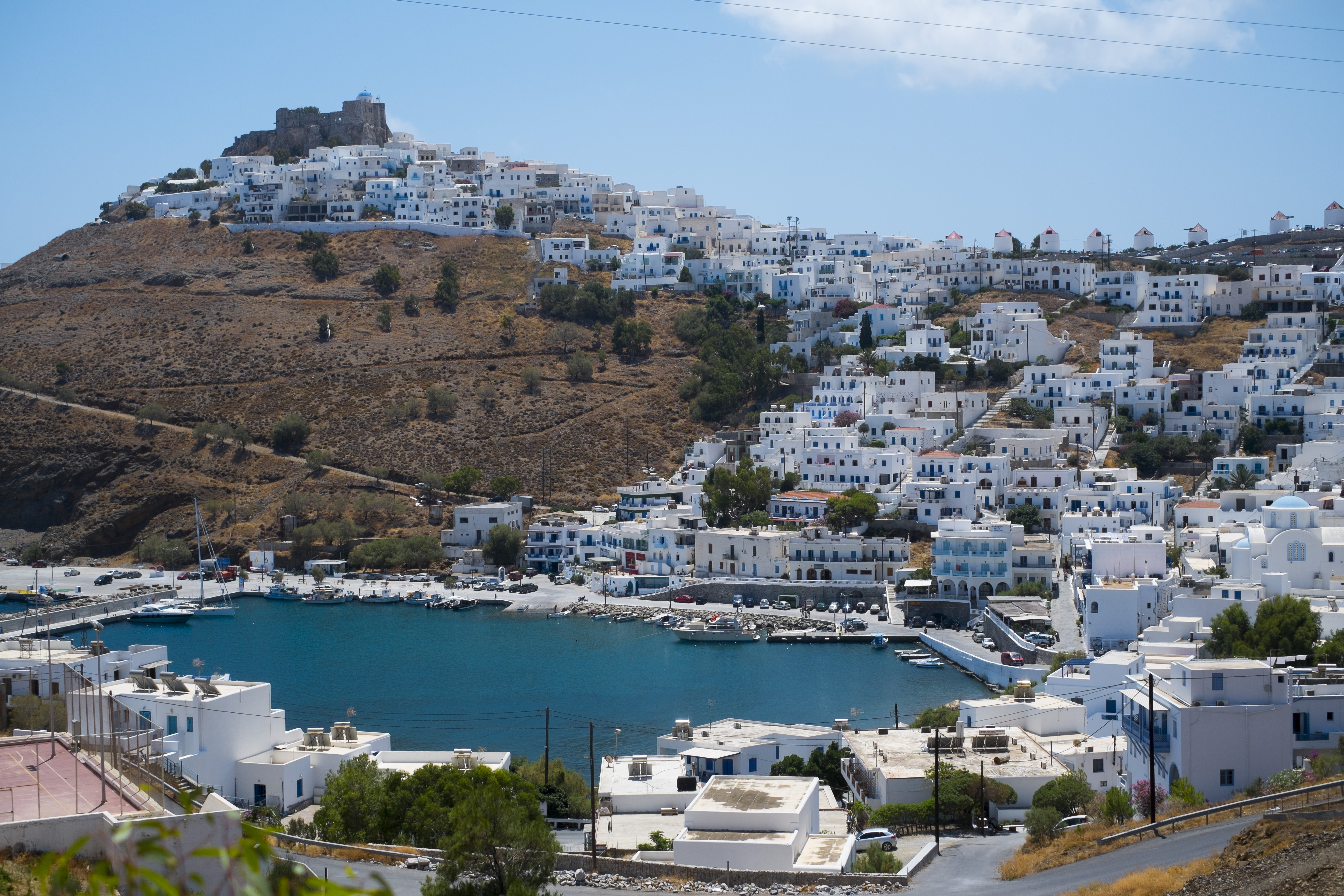 This is a photography of Natura 2000 protected area with ID GR4210009